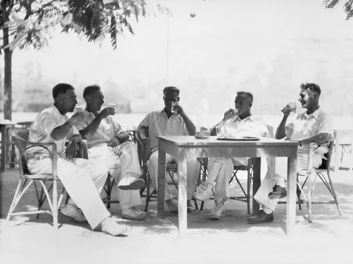 ID number: 020548 Photographer: Unknown Date: 2 October 1941 Place: Cairo Refreshments during practice of the 1941 A.I.F cricket team at the Gezira sporting club. From the left:- Flynn, Hassett, Steen, Rymill and Hunt. Rights Info: No known copyright restrictions. This photograph is from the Australian War Memorial's collection Persistent URL